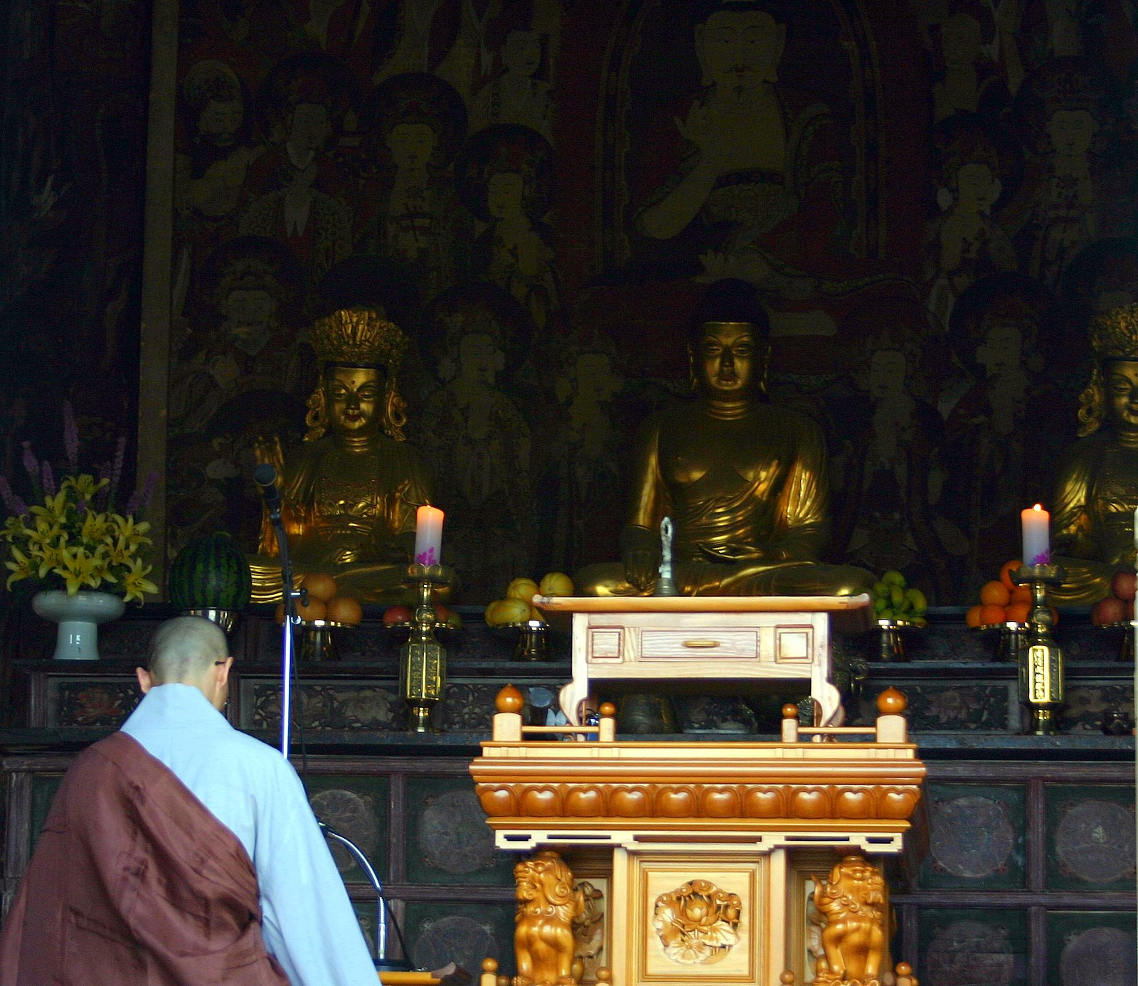 Bongjeongsa Temple in Andong City, Gyeongsangbuk-do, South Korea